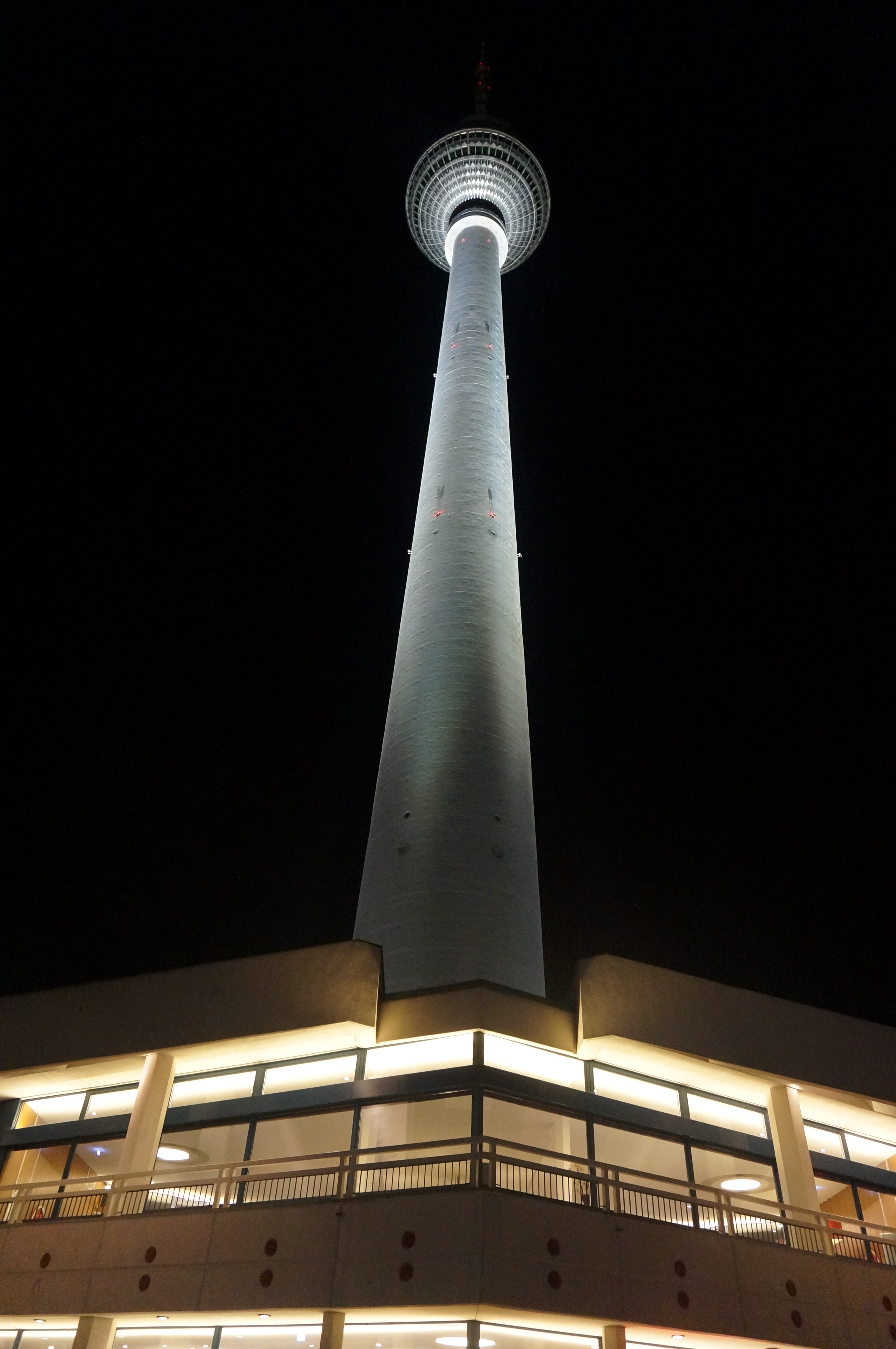 Fernsehturm Berlin Down to Up, at night